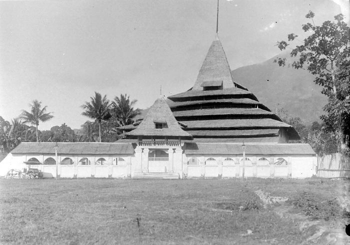 Mosque